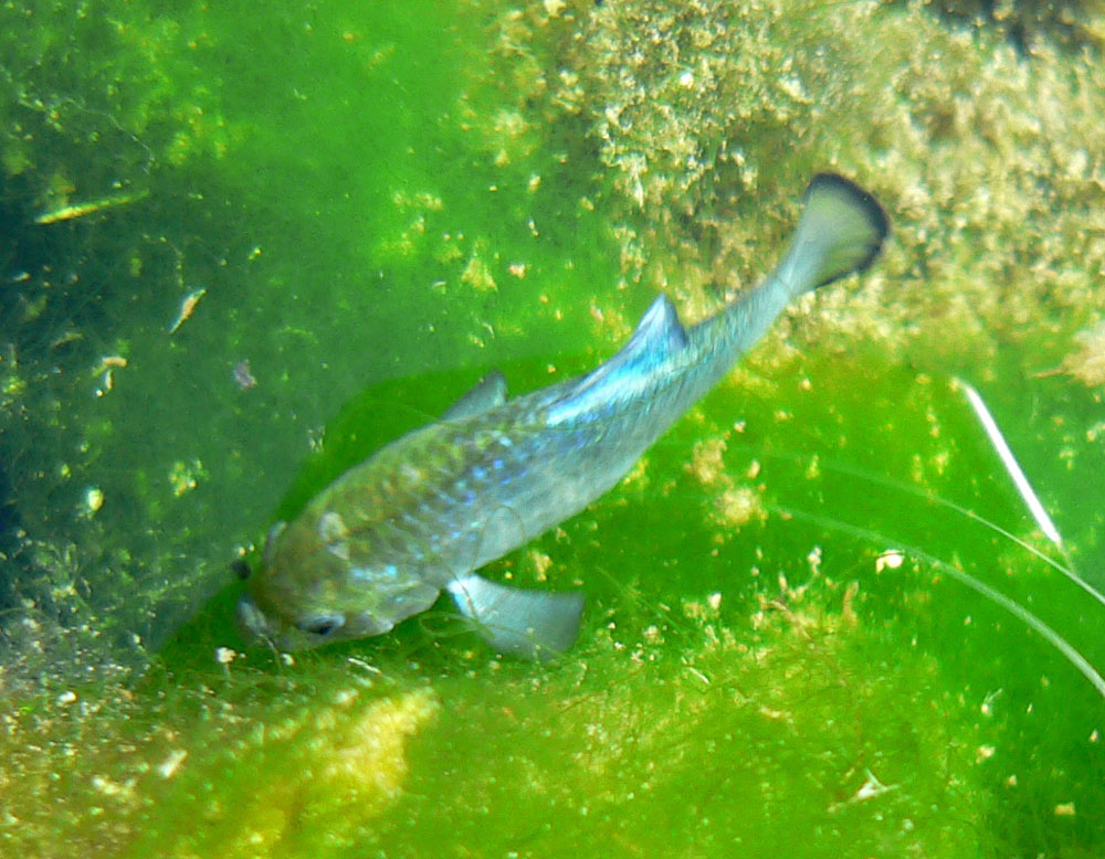 Cyprinodon_nevadensis_mionectes at Points of Rocks Springs, Ash Meadows National Wildlife Refuge, southern Nevada